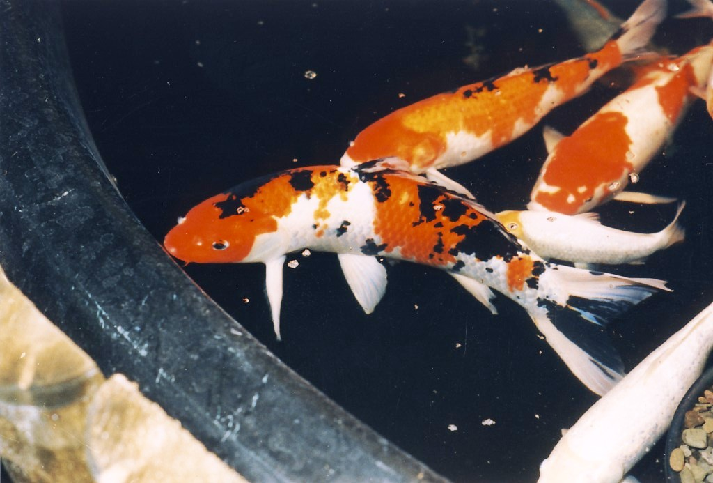 Gan-Samuel - ornamental fish in 1989, Agriculture in Israel